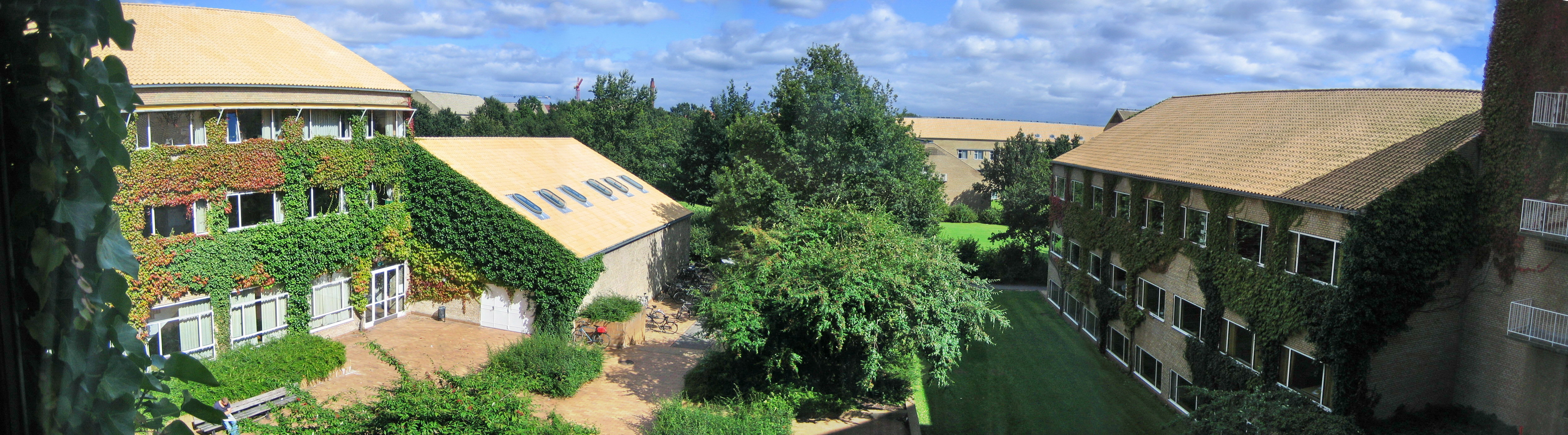 A panorama image of the Department of Mathematical Sciences, Faculty of Science, Aarhus Universitet, Denmark. The image is put together by several images taken from an office in the A building of the department. It shows, from left to right, buildings G, F, C and B.